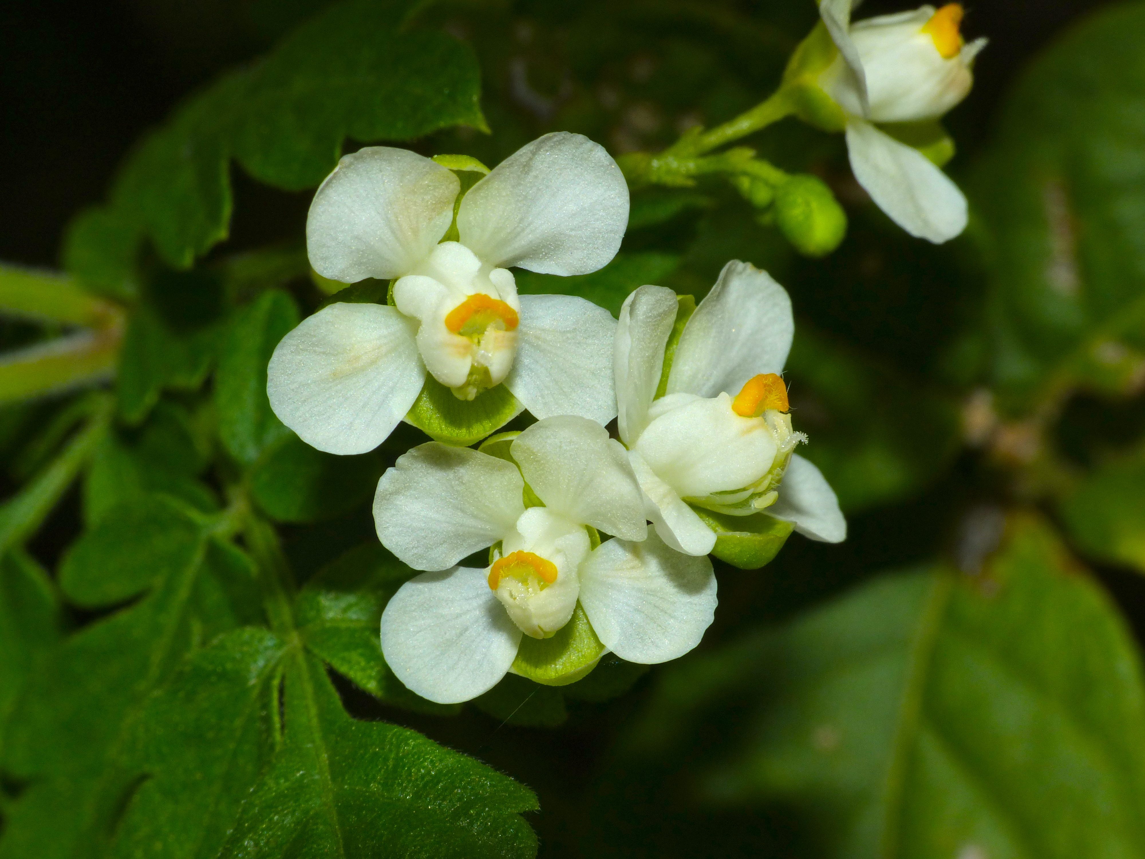 Timbavati Picnic Site, S40 Road West of Satara, Kruger NP, SOUTH AFRICA